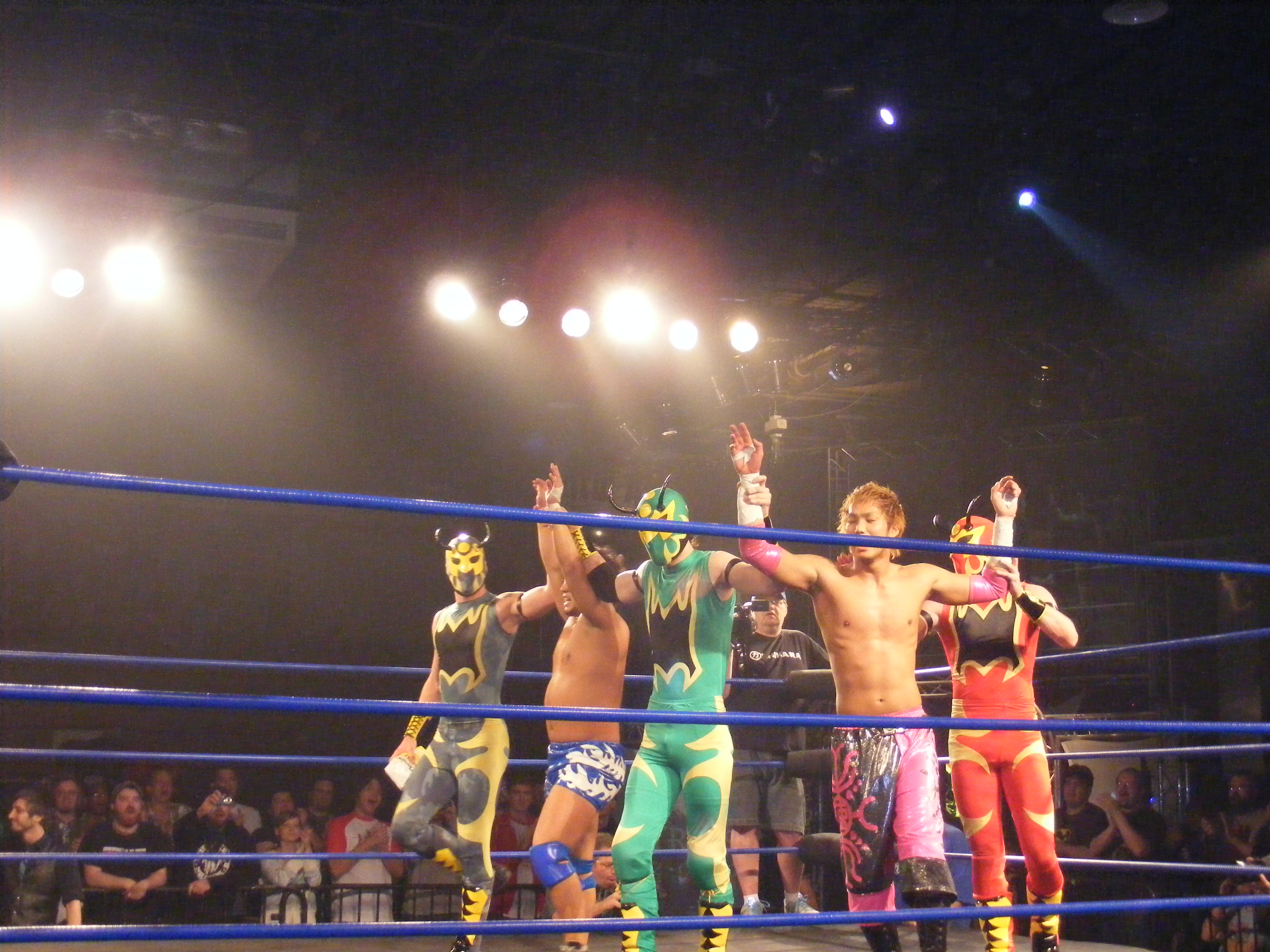 Professional wrestlers Fire Ant, Green Ant, Soldier Ant, Atsushi Kotoge and Daisuke Harada at Chikara King of Trios 2010.